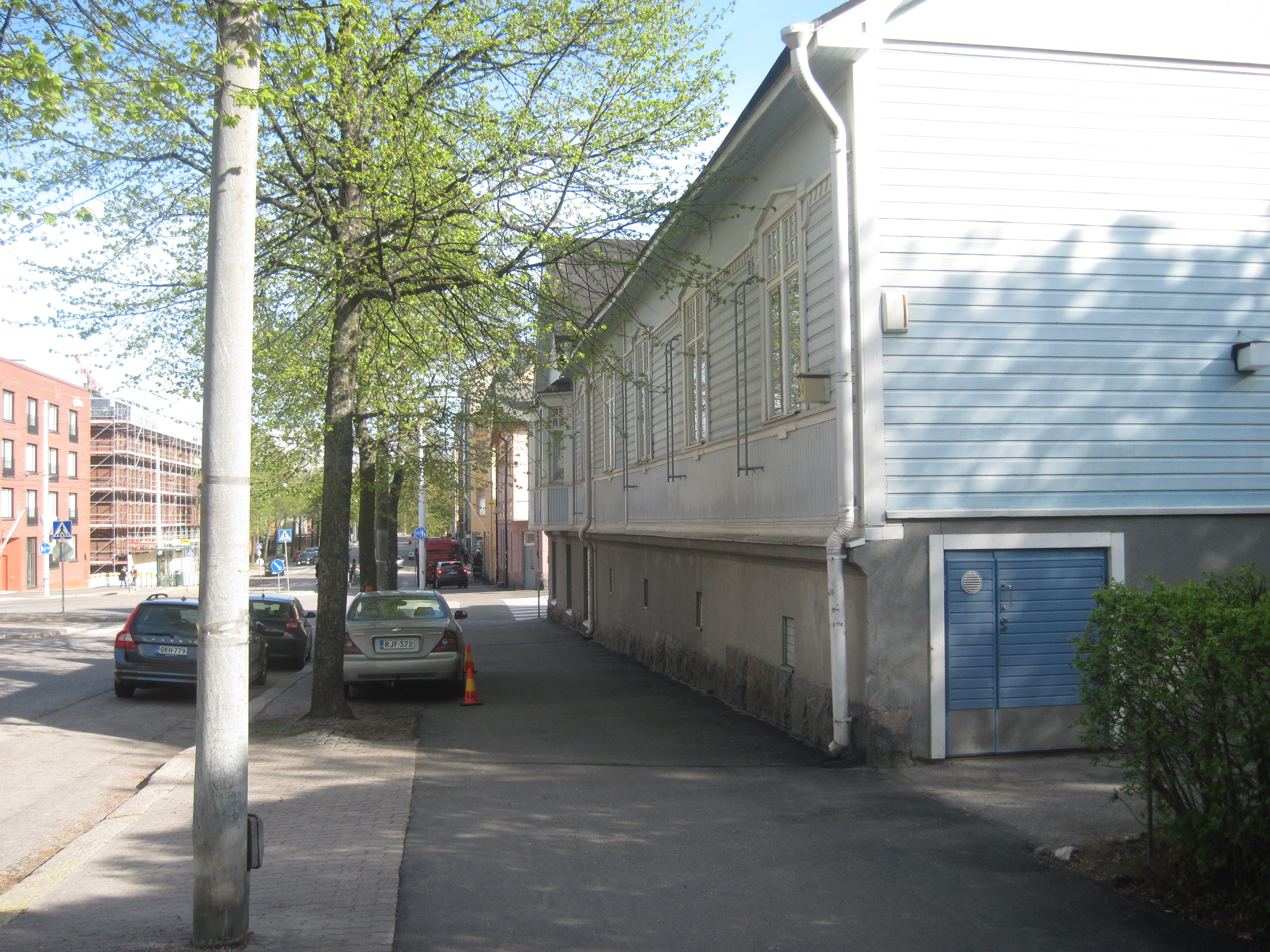 Old wooden houses alongside Aleksis Kiven Katu, Helsinki